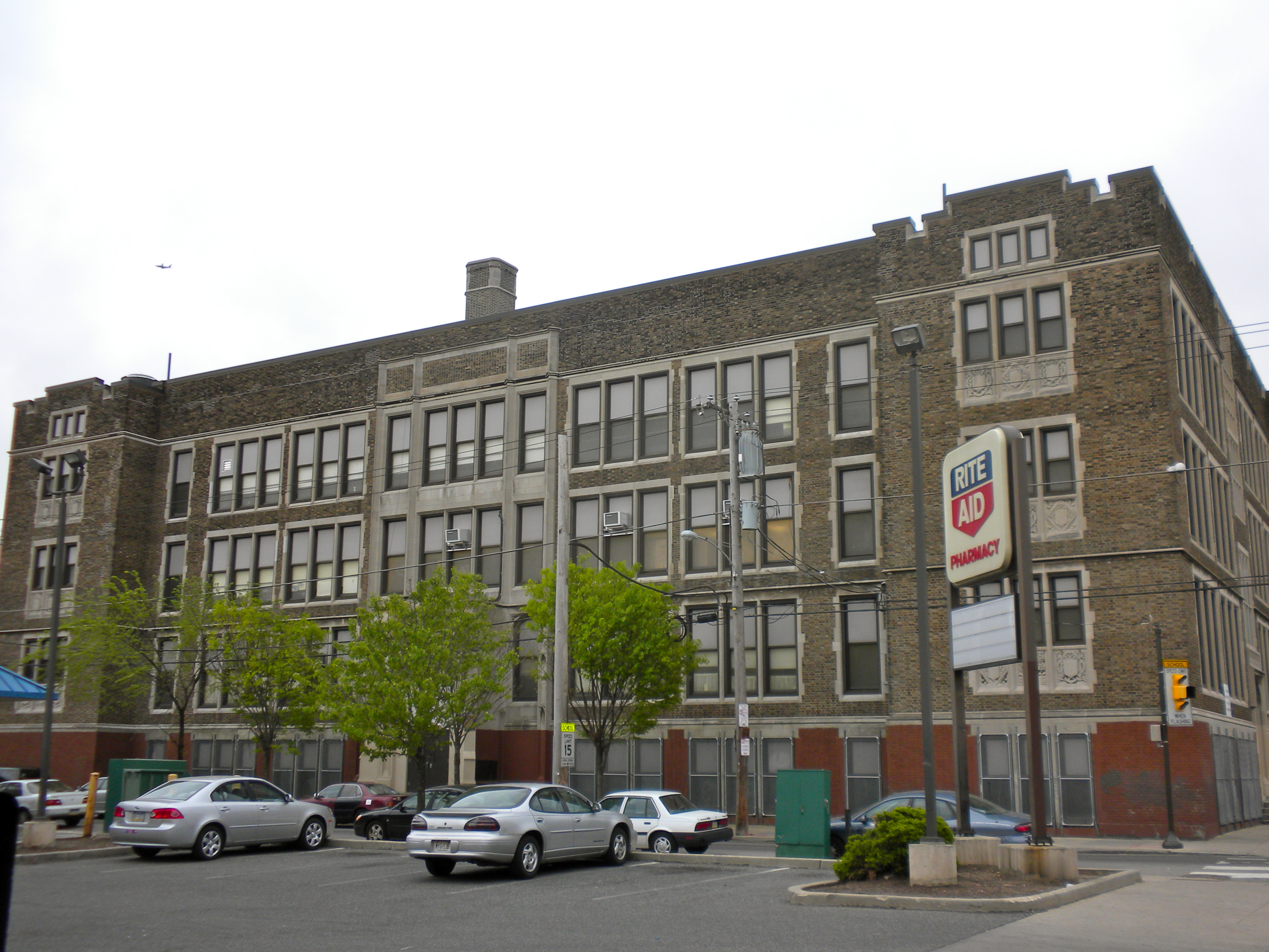 Eliza Butler Kirkbride School on NRHP since November 18, 1988. At 626 Dickinson Street, Philadelphia in Passyunk Square neighborhood. ភាសាខ្មែរ: សាលារៀនអឹលីហ្សាបាតឡឺខឺខប្រាយដ៍